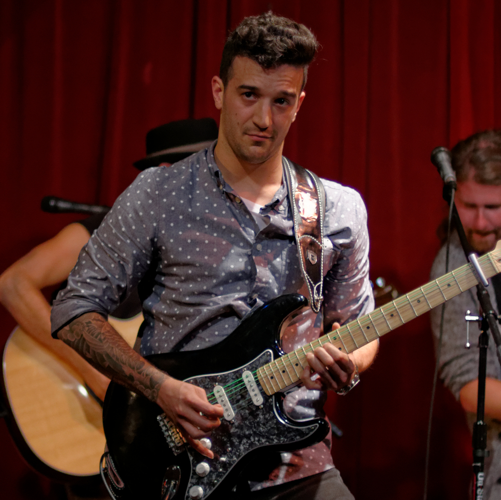 Haley Reinhart, Casey Abrams, Mark Ballas, and Dylan Chambers performing live at Room 5 Lounge (and then out on the sidewalk outside the venue) in Los Angeles California on Wednesday June 25th, 2014.